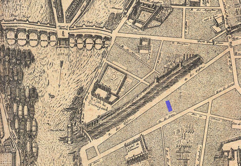 Location (in blue) of the Jeu de Paume de la Bouteille on the 1652 Gomboust map of Paris. The building was converted into a theatre for Perrin's Académie d'Opéra (Paris Opera) in 1671 and the Guénégaud Theatre in 1673. The location is based on File:State in 1849 and presumed site of the Jeu de Paume de la Bouteille in Paris - Nuitter & Thoinon 1886 after p146 GB.png.